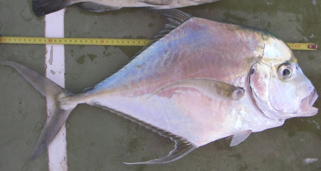 Alectis alexandrina taken off Accra, Ghana